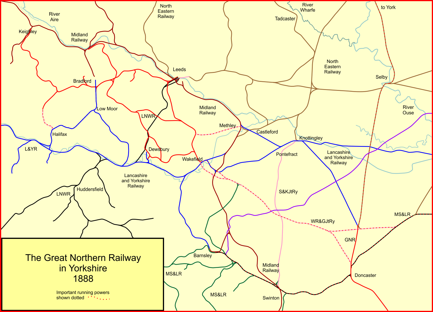 System map of the Great Northern Railway in Yorkshire, England, in 1888